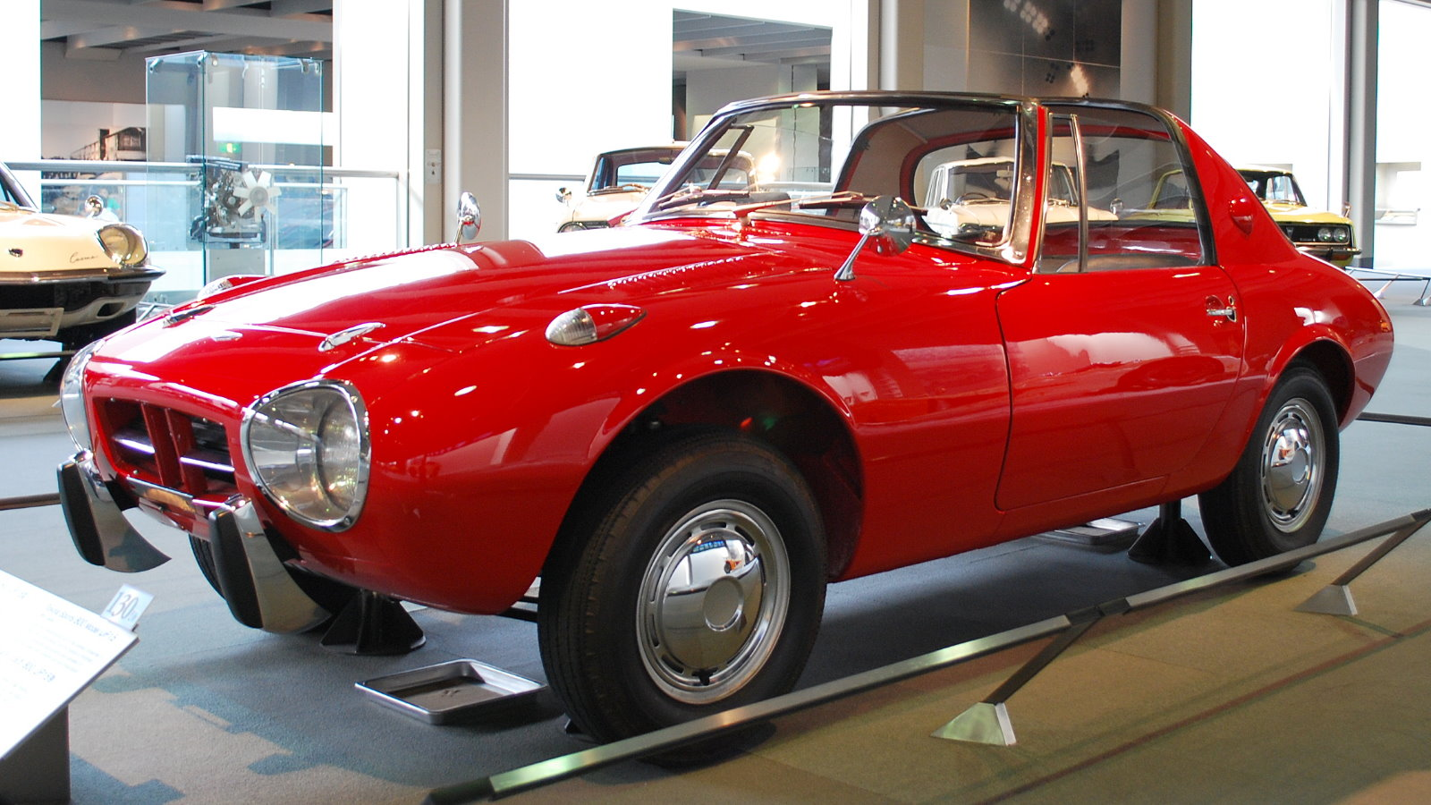 Toyota Sports 800 (1965)